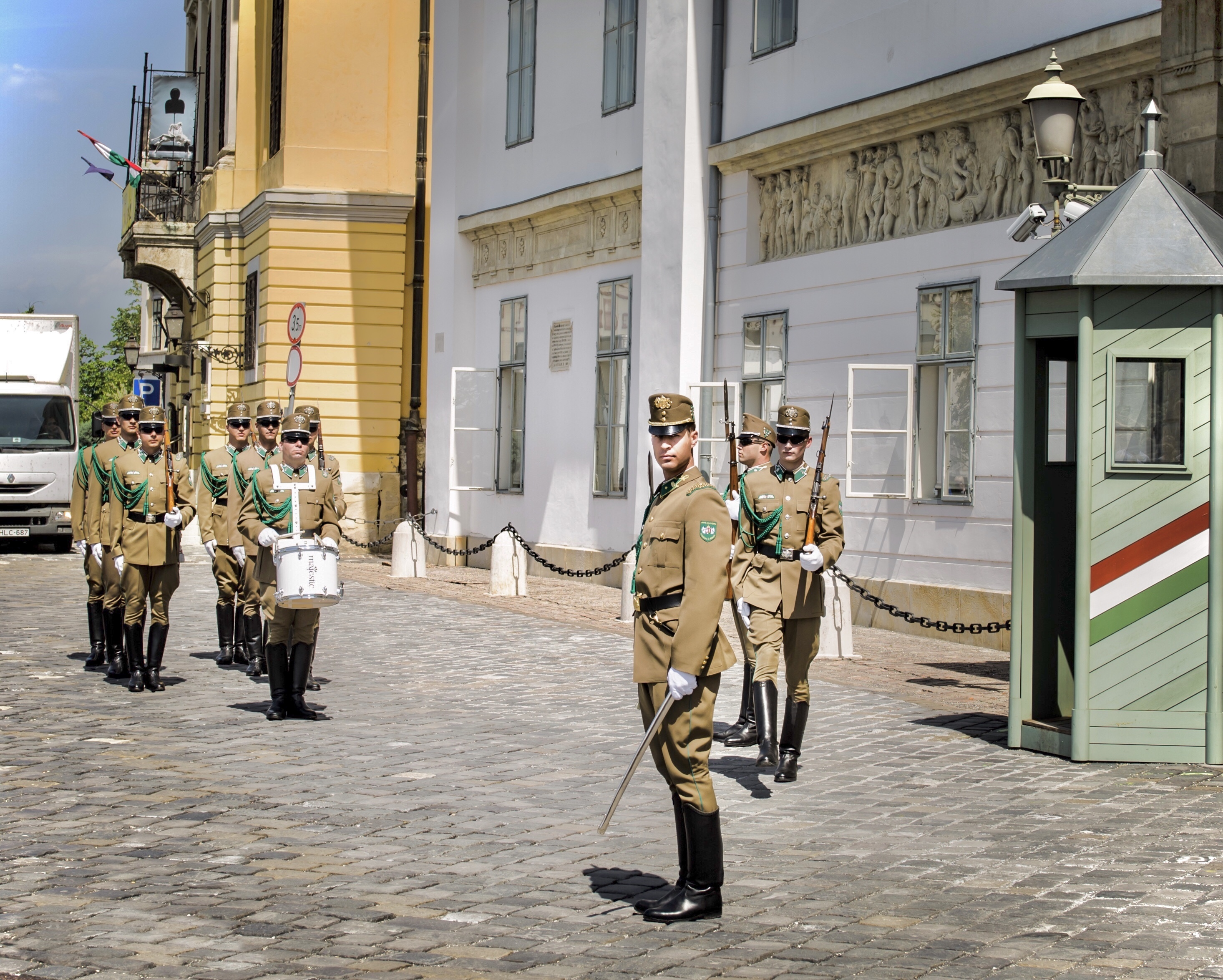 Guard of Honour